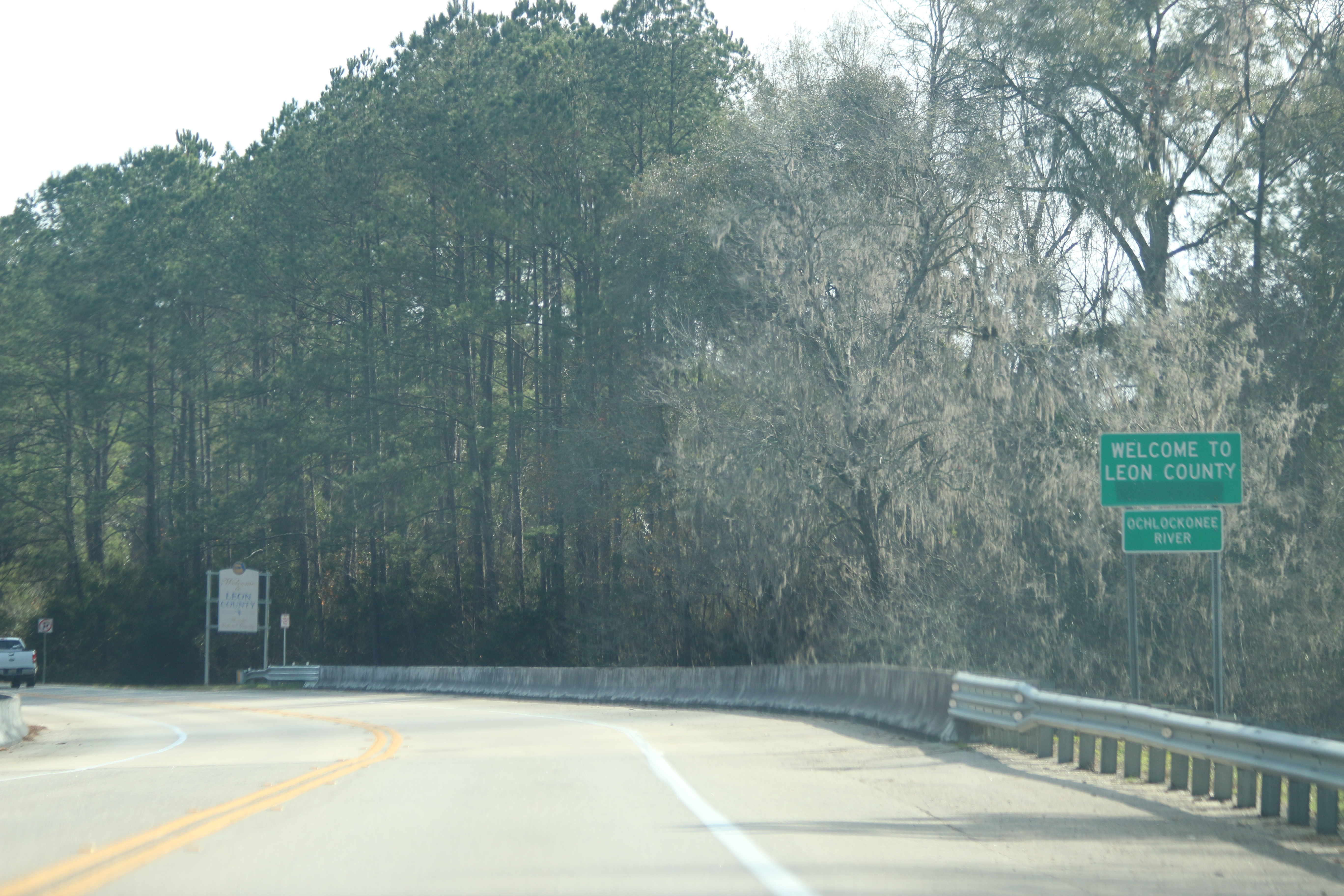 The sign for Leon County, Florida on Florida State Road 20, taken in Liberty County.